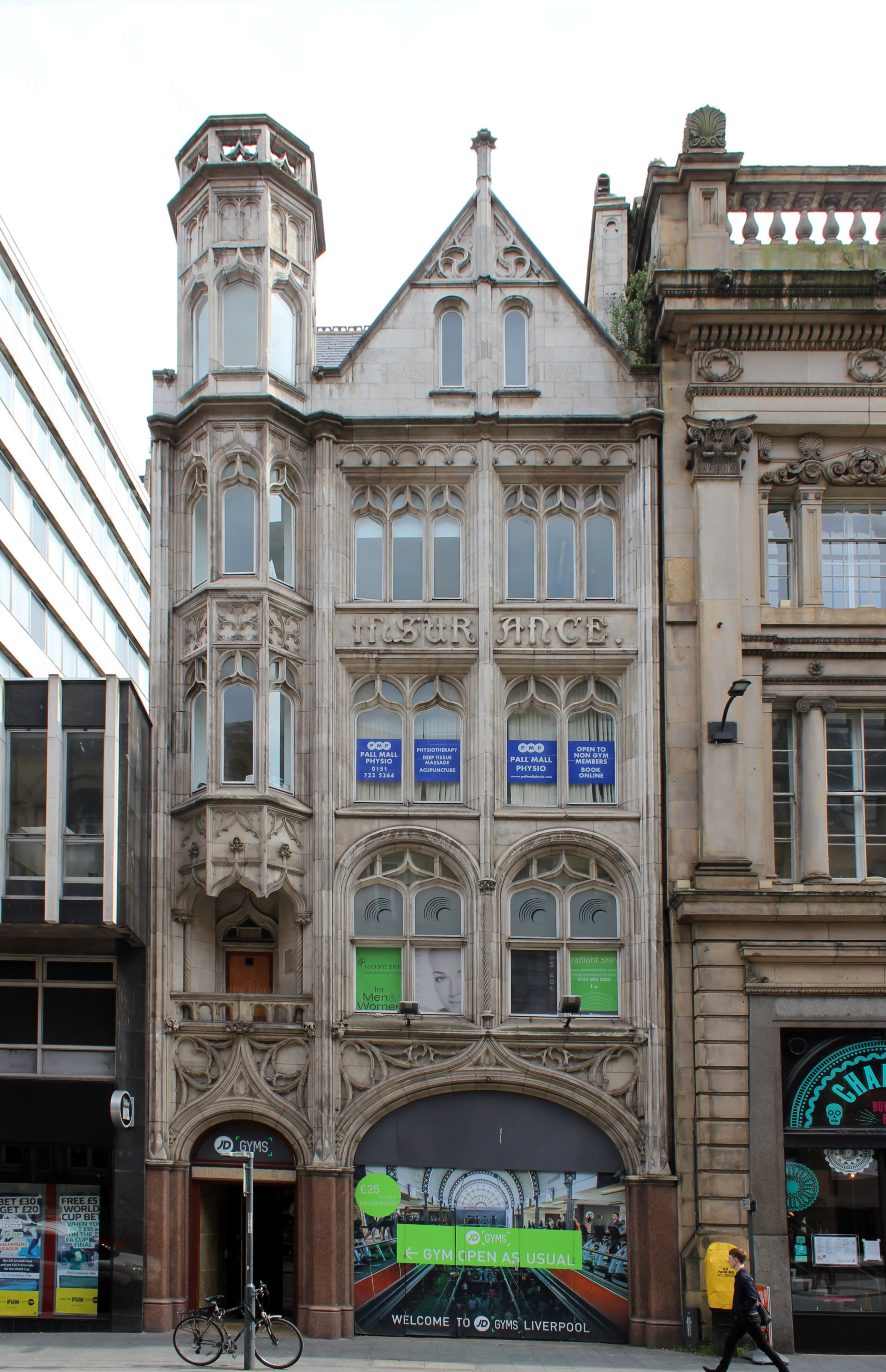 Grade II listed offices, 1906 by Walter Aubrey Thomas. The left-hand part was destroyed in the blitz of 1941 and has been rebuilt as a modern building of little architectural interest.